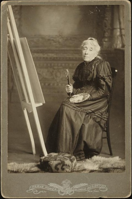 Lilly Martin Spencer (1822-1902), English-born American painter, ca. 1900. Archives of American Art, Smithsonian Institution